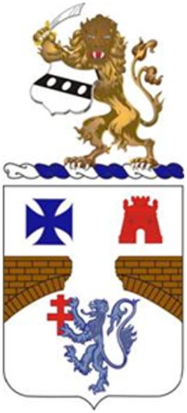 112th Infantry Regiment Coat Of Arms